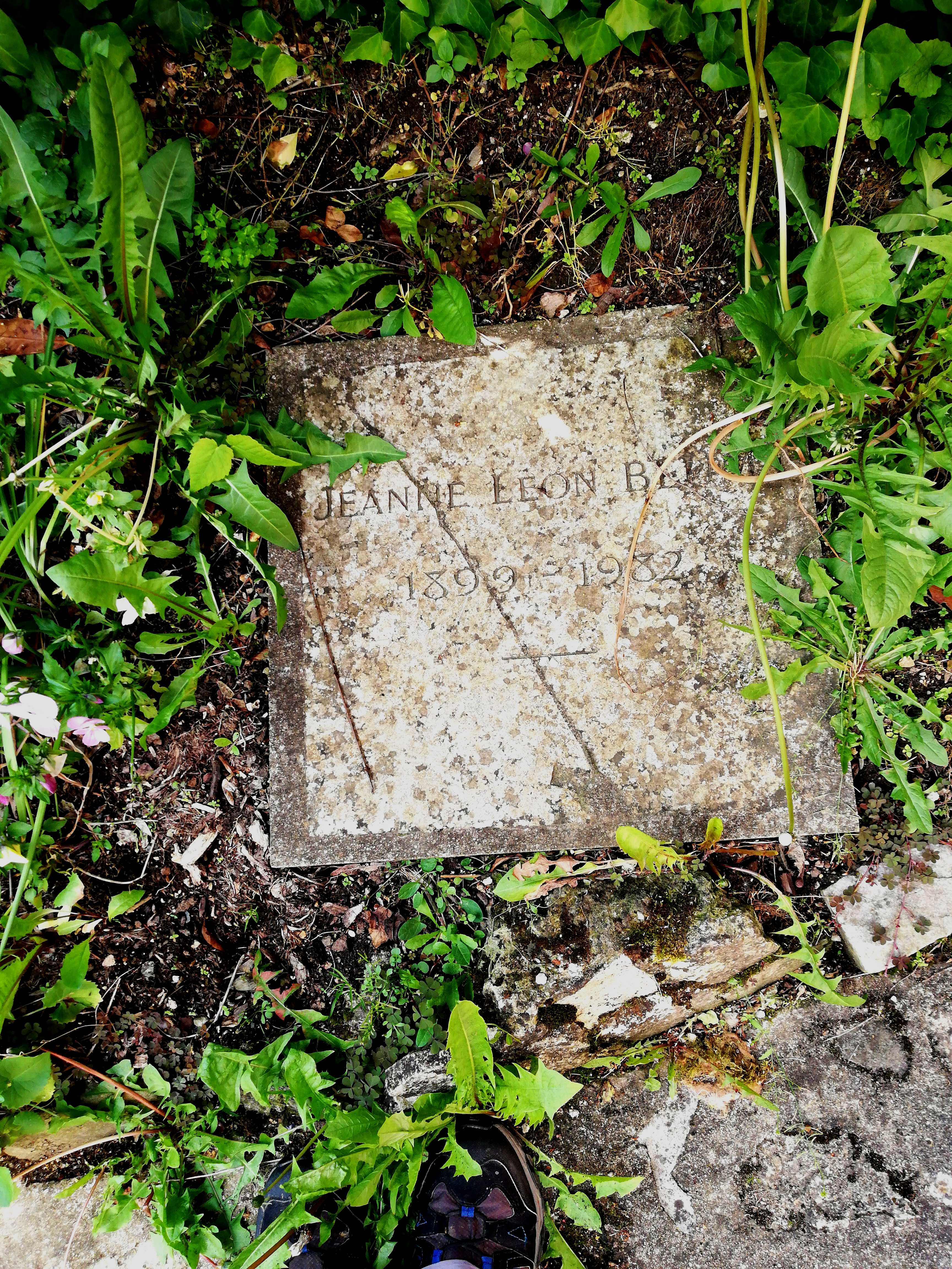 Funeral plate in the house of Jeanne and Léon Blum in Jouy-en-Josas, where the ashes of Jeanne Blum are buried. .